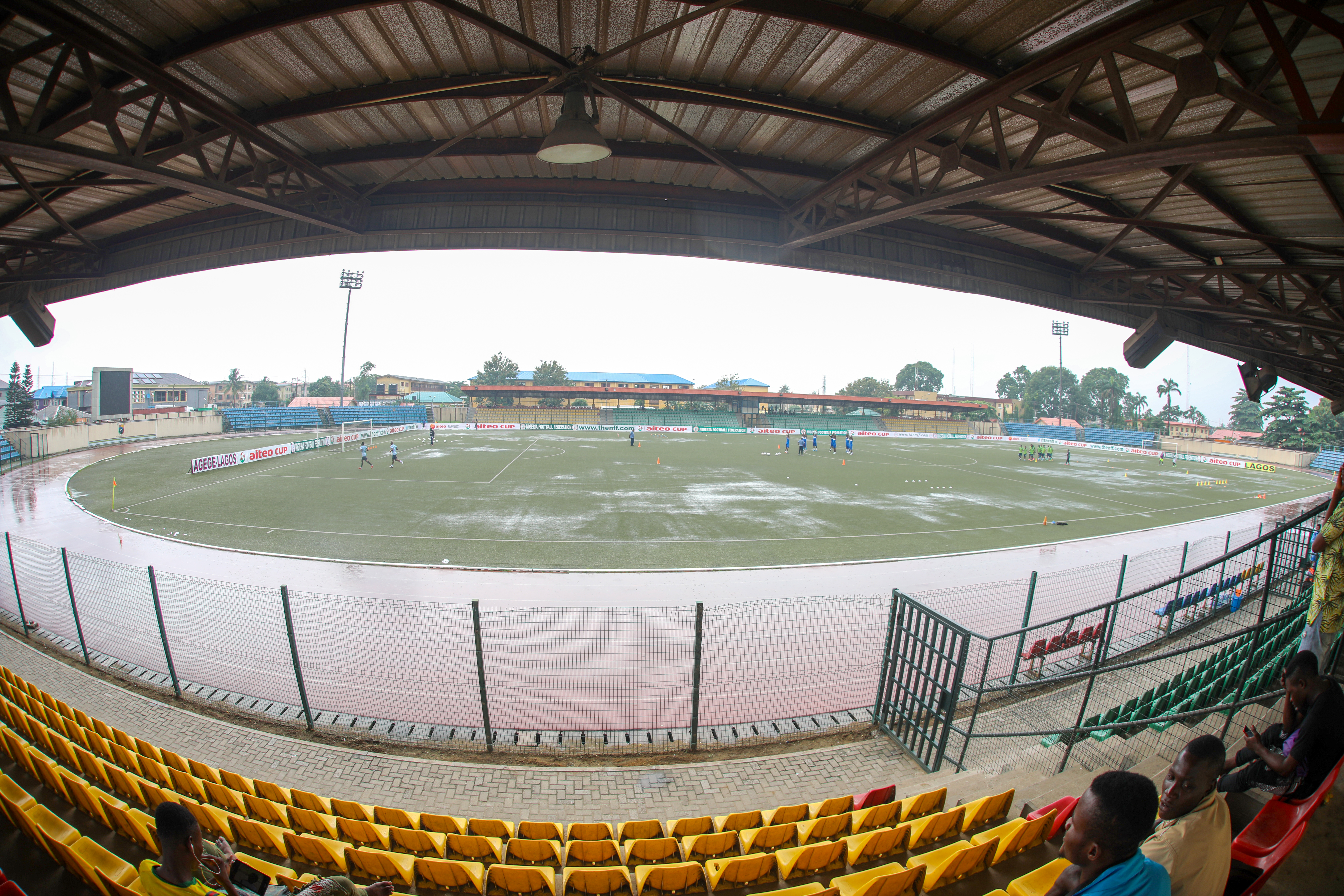 Agege stadium Lagos